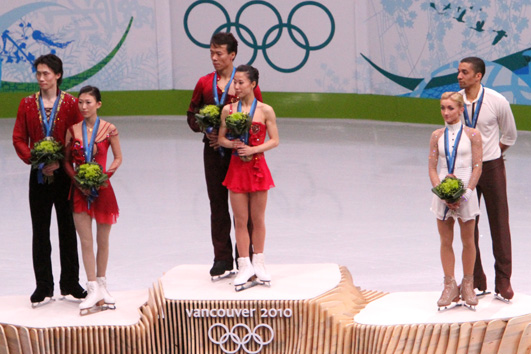 2010 Winter Olympics - Figure skating Pairs podium - Pang Qing / Tong Jian (2nd), Shen Xue / Zhao Hongbo (1st), Aliona Savchenko / Robin Szolkowy (3rd).